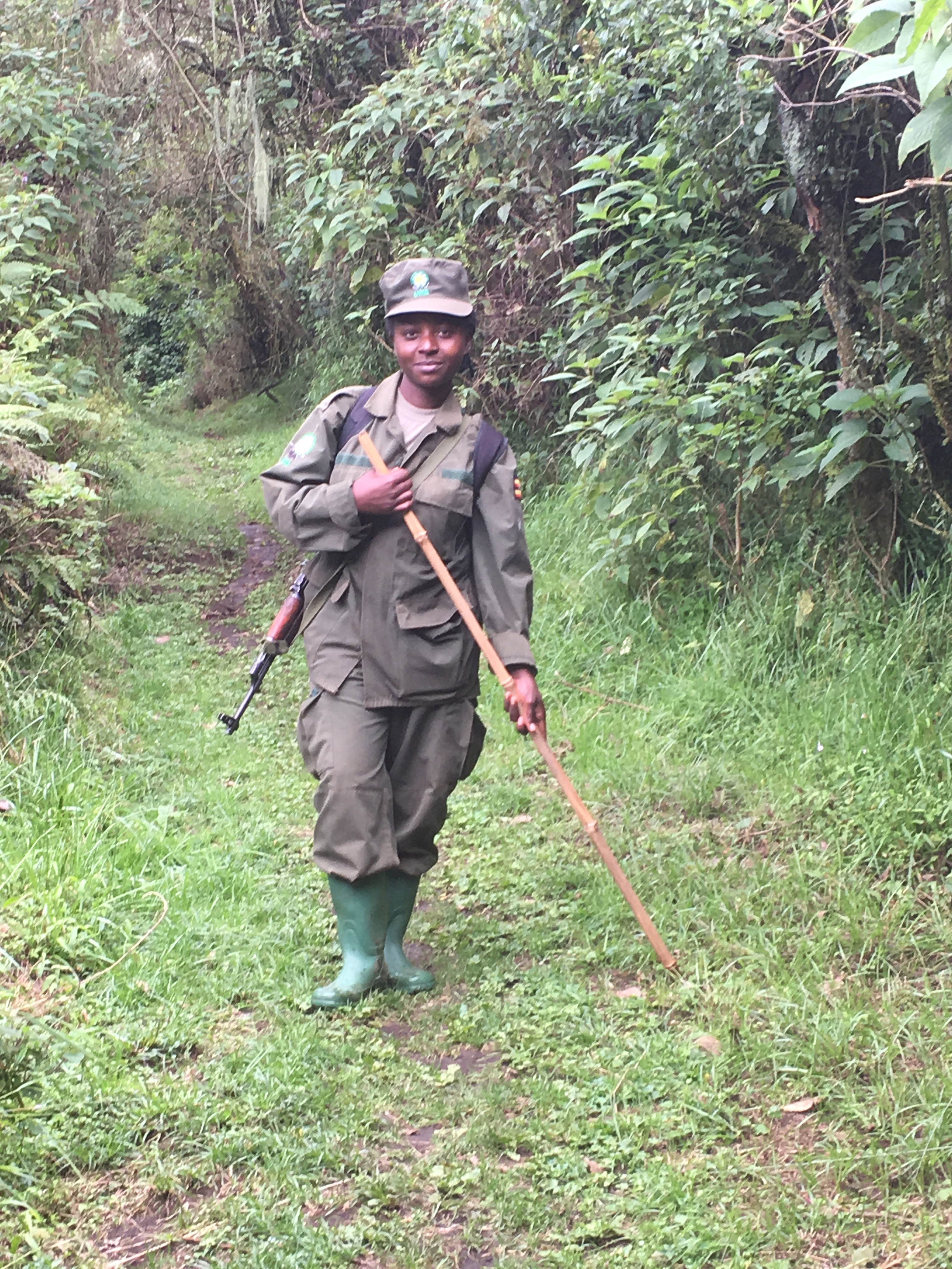 Lady ranger this lady takes guests high into the Virunga Mountains on Golden Monkey treks and Mountain Gorilla treks. Her job is hugely important and she is based in Magahinga National Park. This is an image of "African people at work" from Uganda